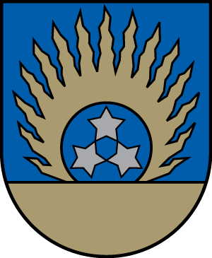 Coat of arms of Ozolnieki Municipality, Latvia.